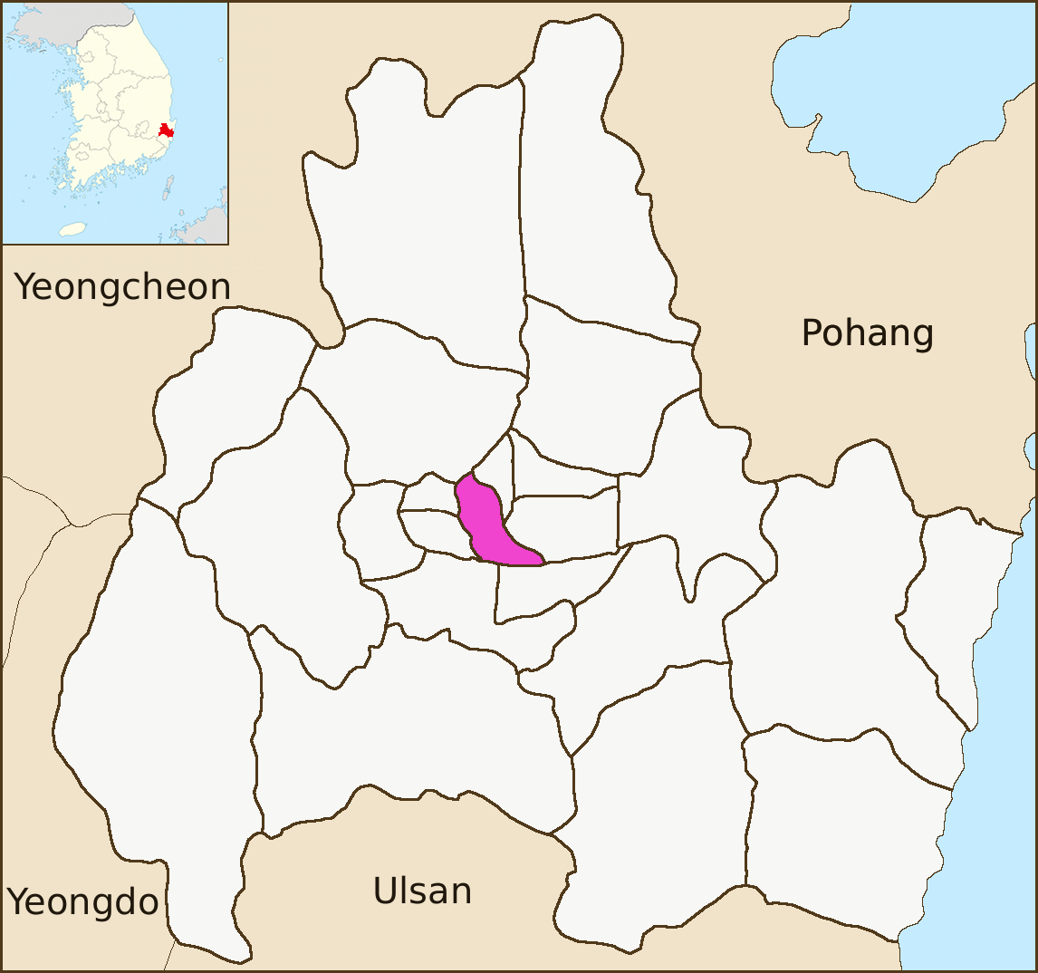 Map of Hwango-dong, an administrative division of Gyeongju, South Korea. Created by User:Visviva, redrawn by Kokiri